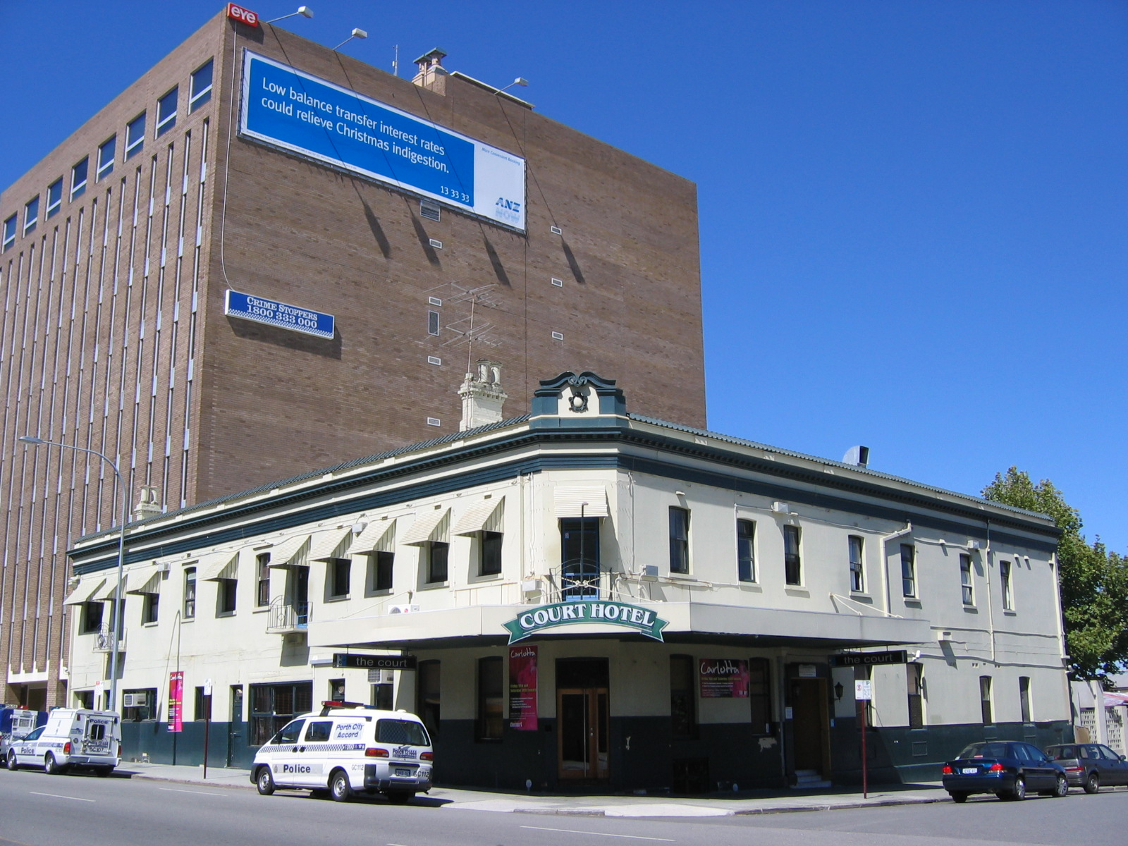 Court Hotel, Perth, Western Australia, as it looked in 2007.